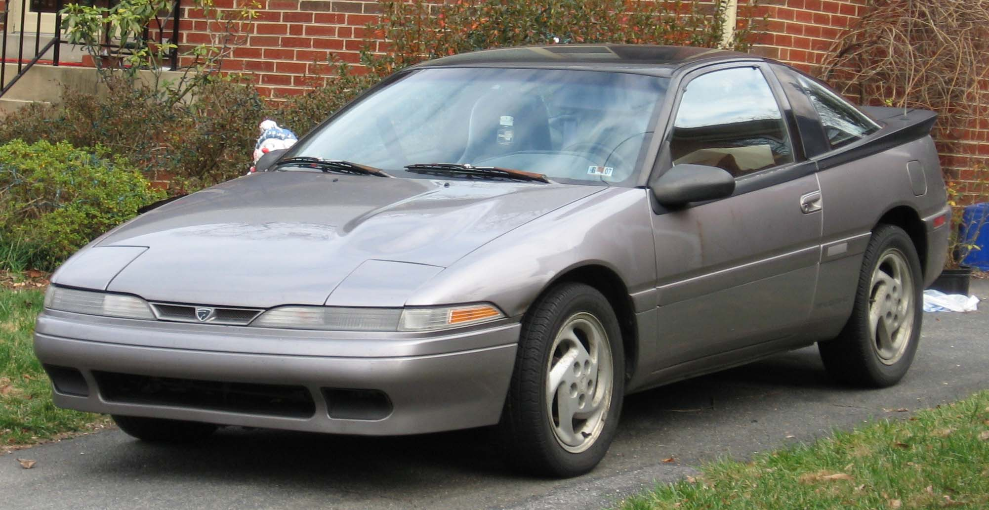 1990-1994 Eagle Talon photographed in USA.